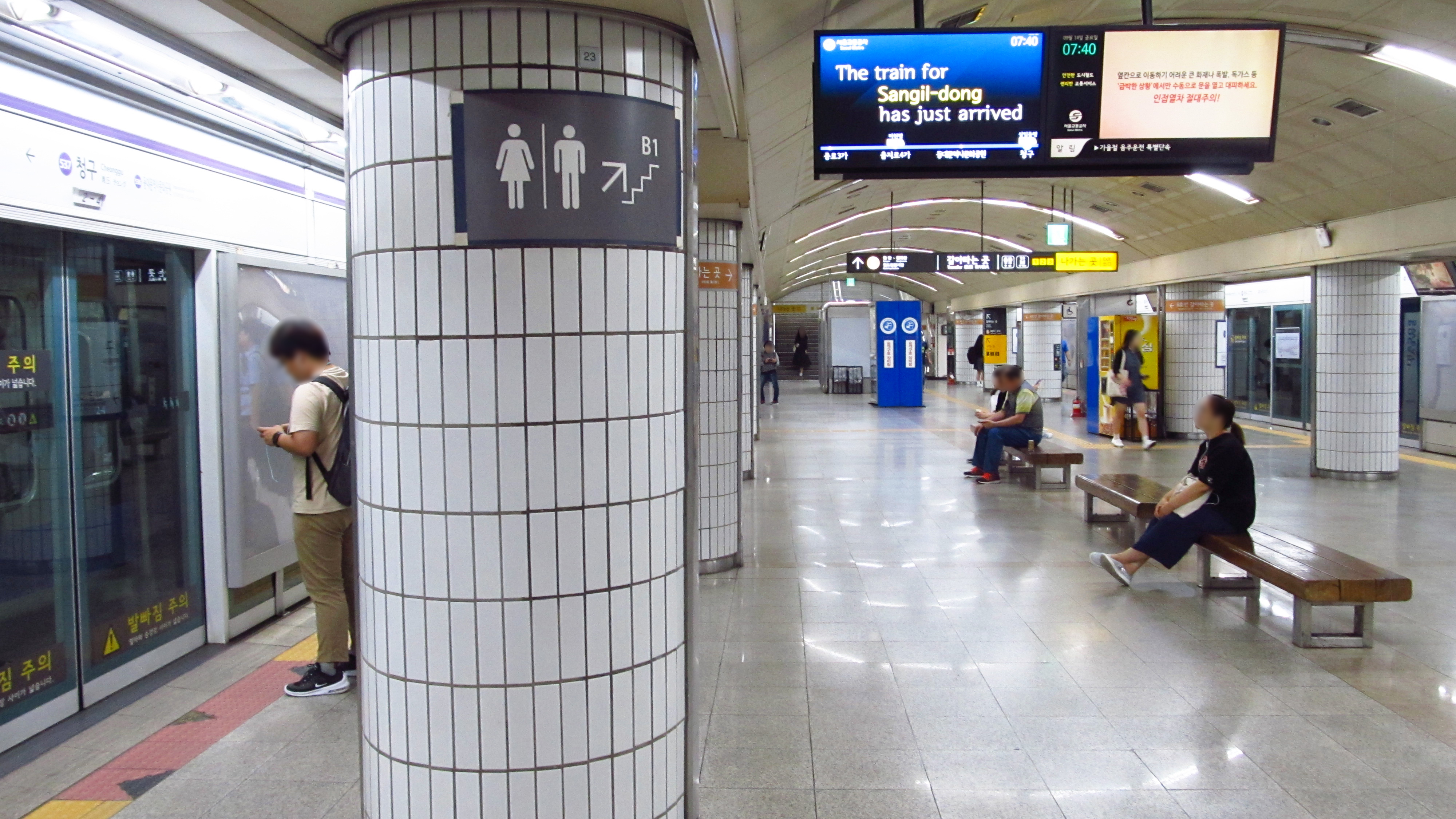 The platform at Cheonggu Station on Seoul Subway Line 5 in Jung-gu, Seoul, Republic of Korea(South Korea)